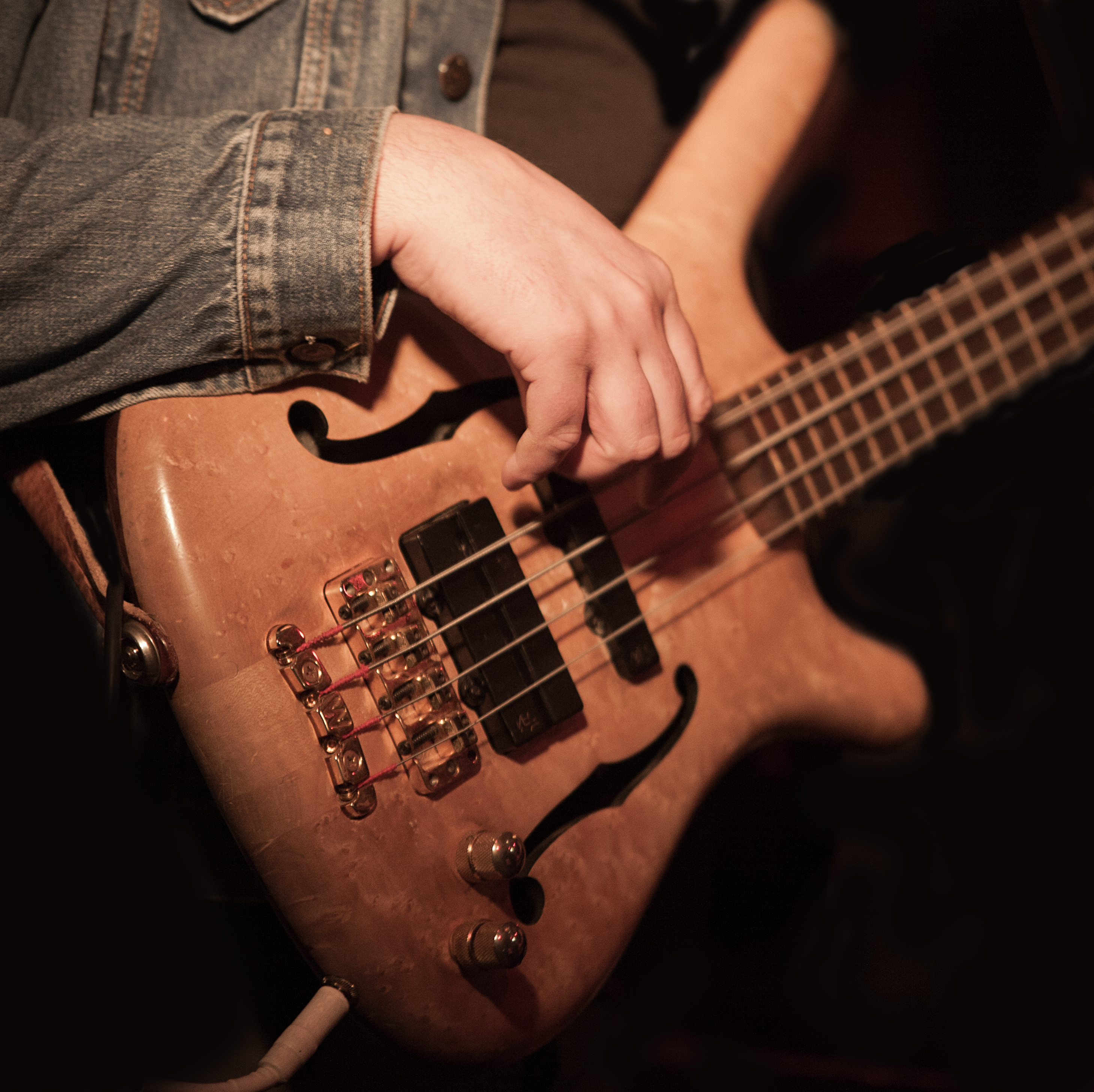 Kristian Hahne in Badass Boogie Band at Skål Stockholm January 2012 Warwick Corvette Limited edition (bass)